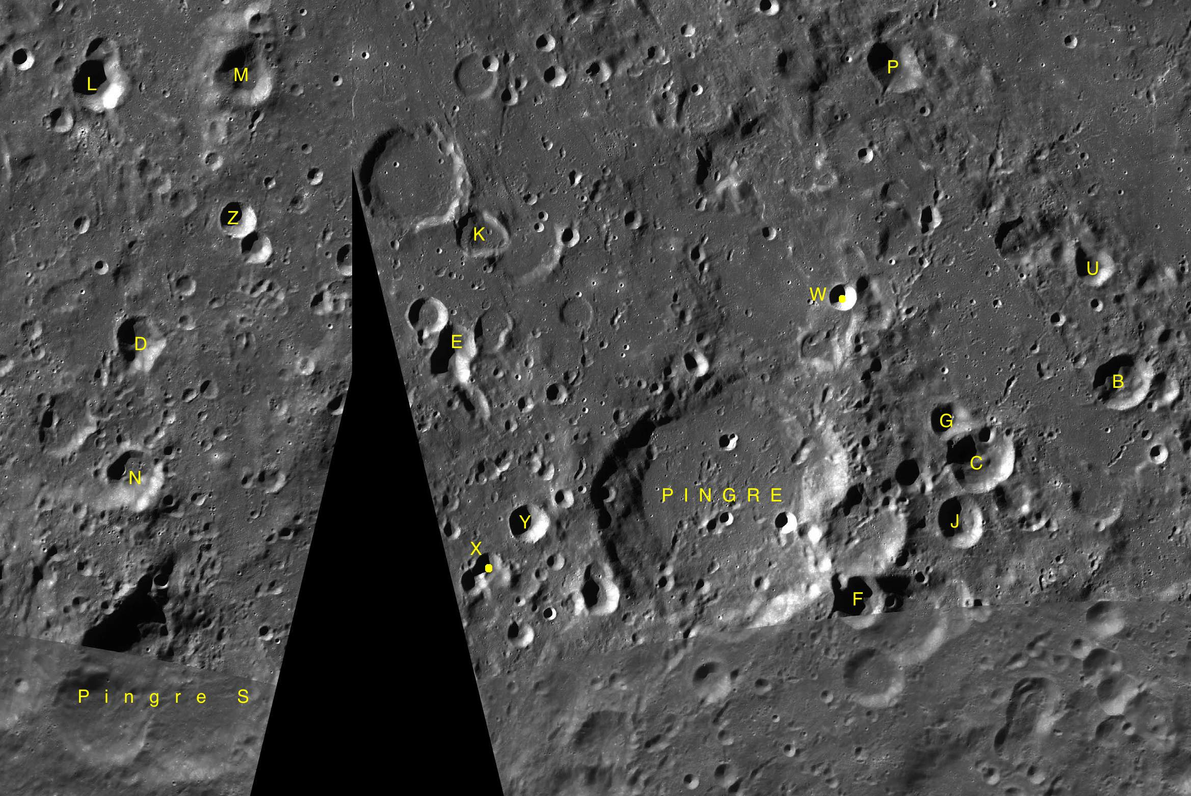 Parts of the charts LAC-124, LAC-135 used for the presentation